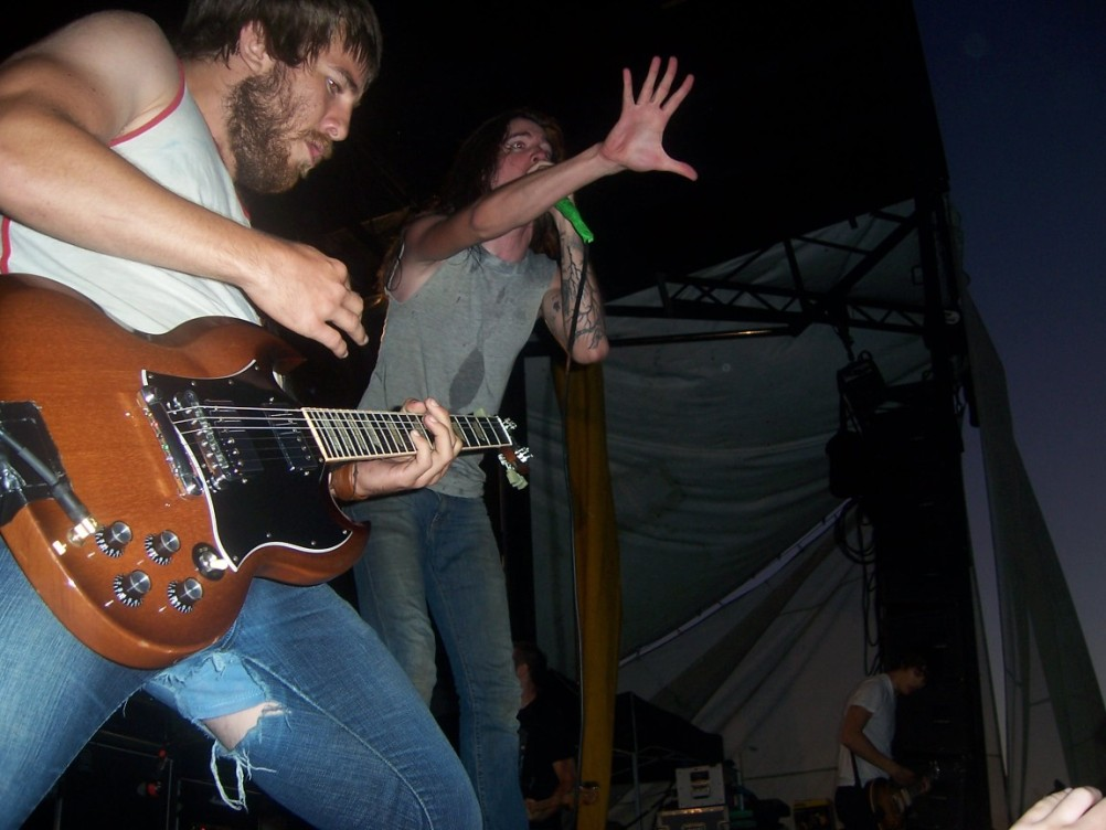 Underoath playing Warped Tour 2006 in San Diego, CA.